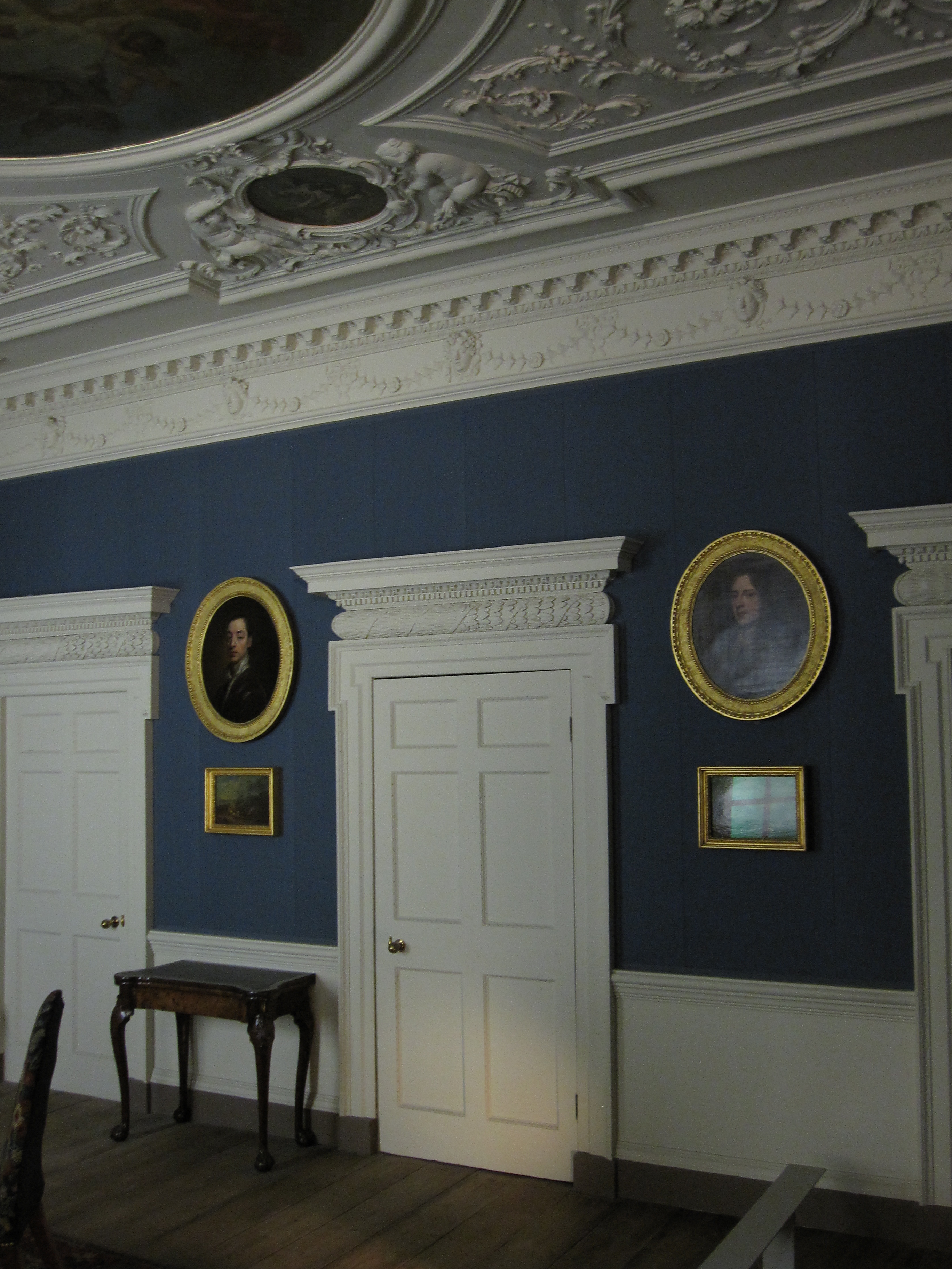 The parlour from 2 Henrietta Street, London (1727-1728). This room was the main entertaining room on the first floor of a London house designed by the architect James Gibbs (1682-1754). He bought the houses of fours plots in the new street using one for his own house and three, including number 2, for houses for renting. Although the exterior of the house was plain, the ceiling of this room was elaborately decorated. The main panels may be by the Italian-born painter Vincenzo Damini, the plaster decoration by the Swiss-born plasterworkers who frequently worked with Gibbs. Victoria and Albert Museum